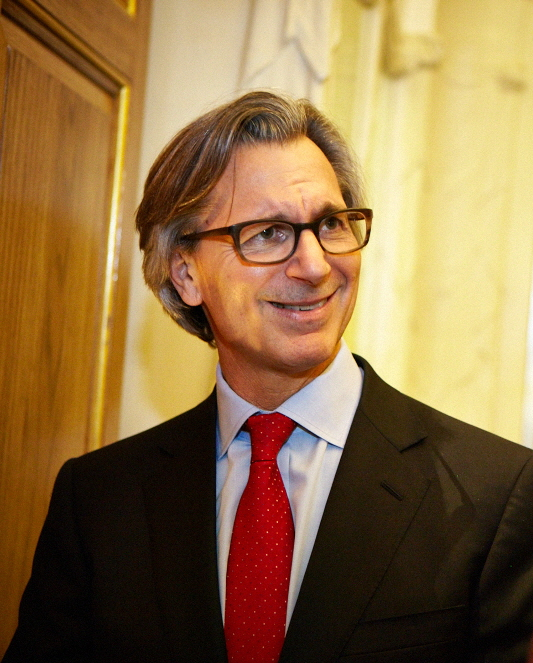 David Giampaolo on March 7, 2013